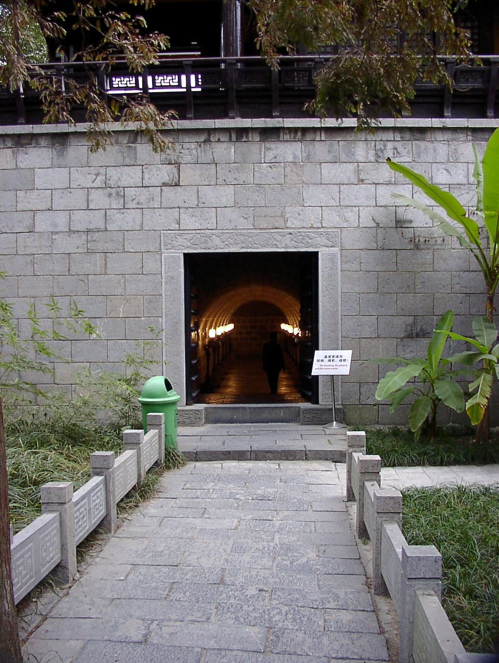 Photograph of the tomb of Bao Qingtian in Hefei, Anhui Province, China. View of the entrance to the burial chamber. Picture taken on October 26 2004 by Rolf Müller.